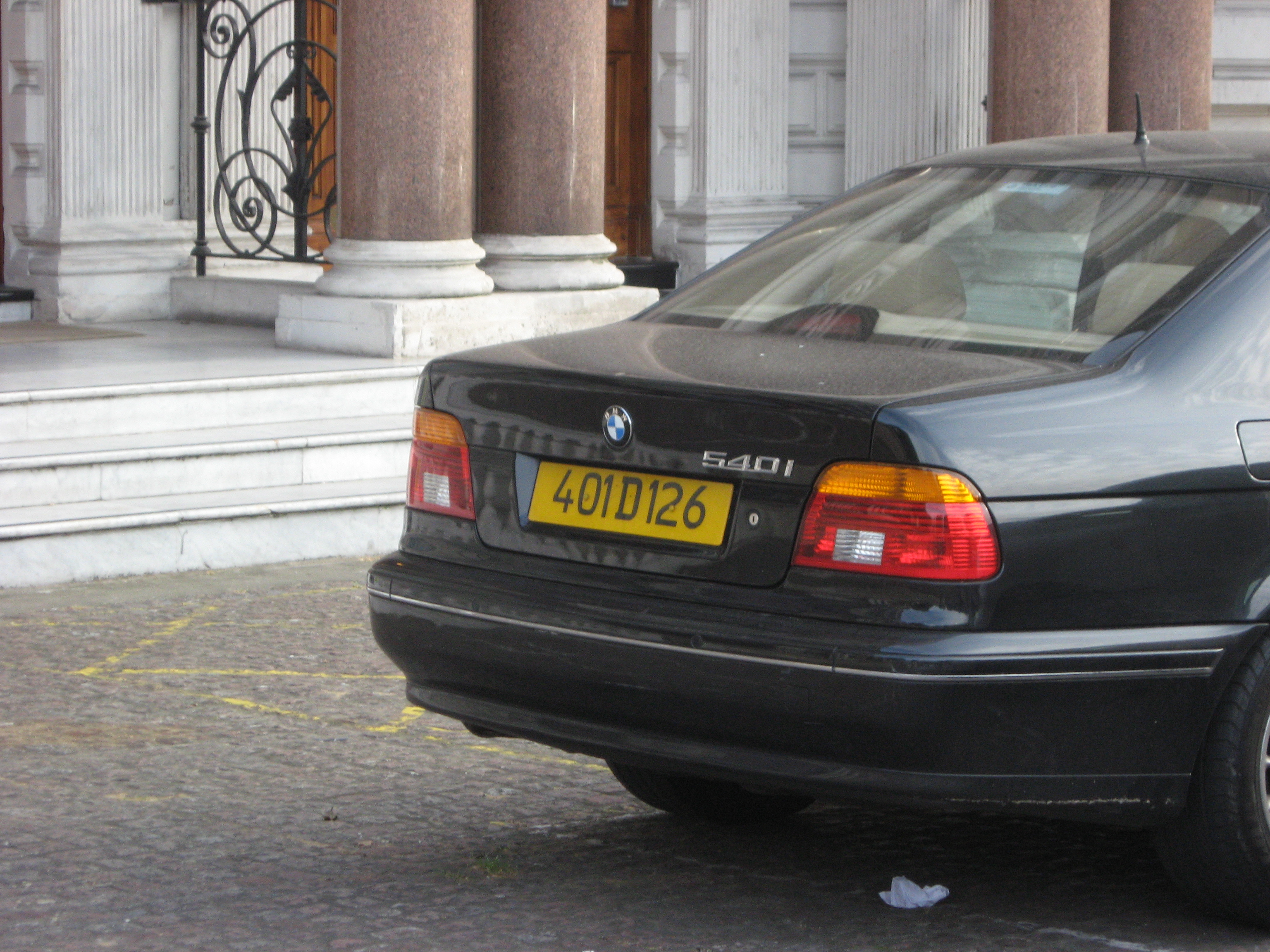 British diplomatic car plate for Libya.